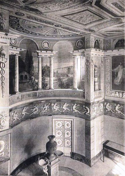 Tribune of music in the Dining room of Palacio de La Moncloa before the Spanish Civil War.